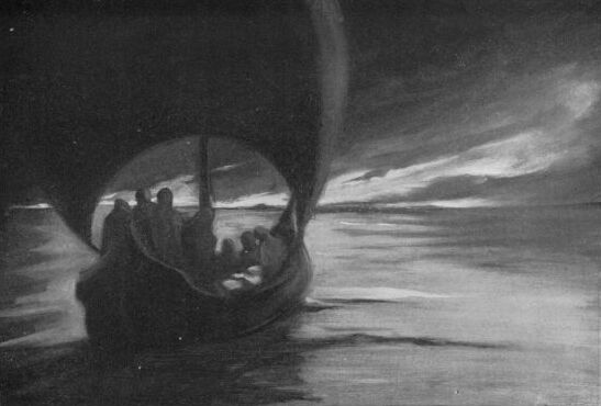 Illustration from U. Waldo Cutler's Stories of King Arthur and His Knights.